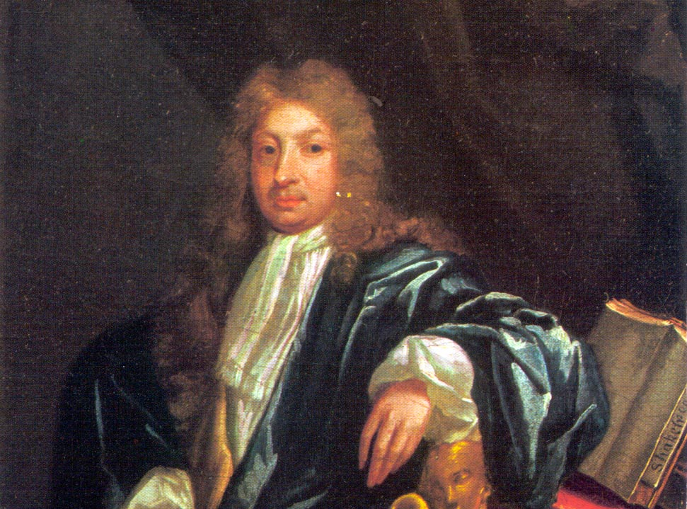 Portrait of John Dryden in older age, after being made poet laureate of the United Kingdom.